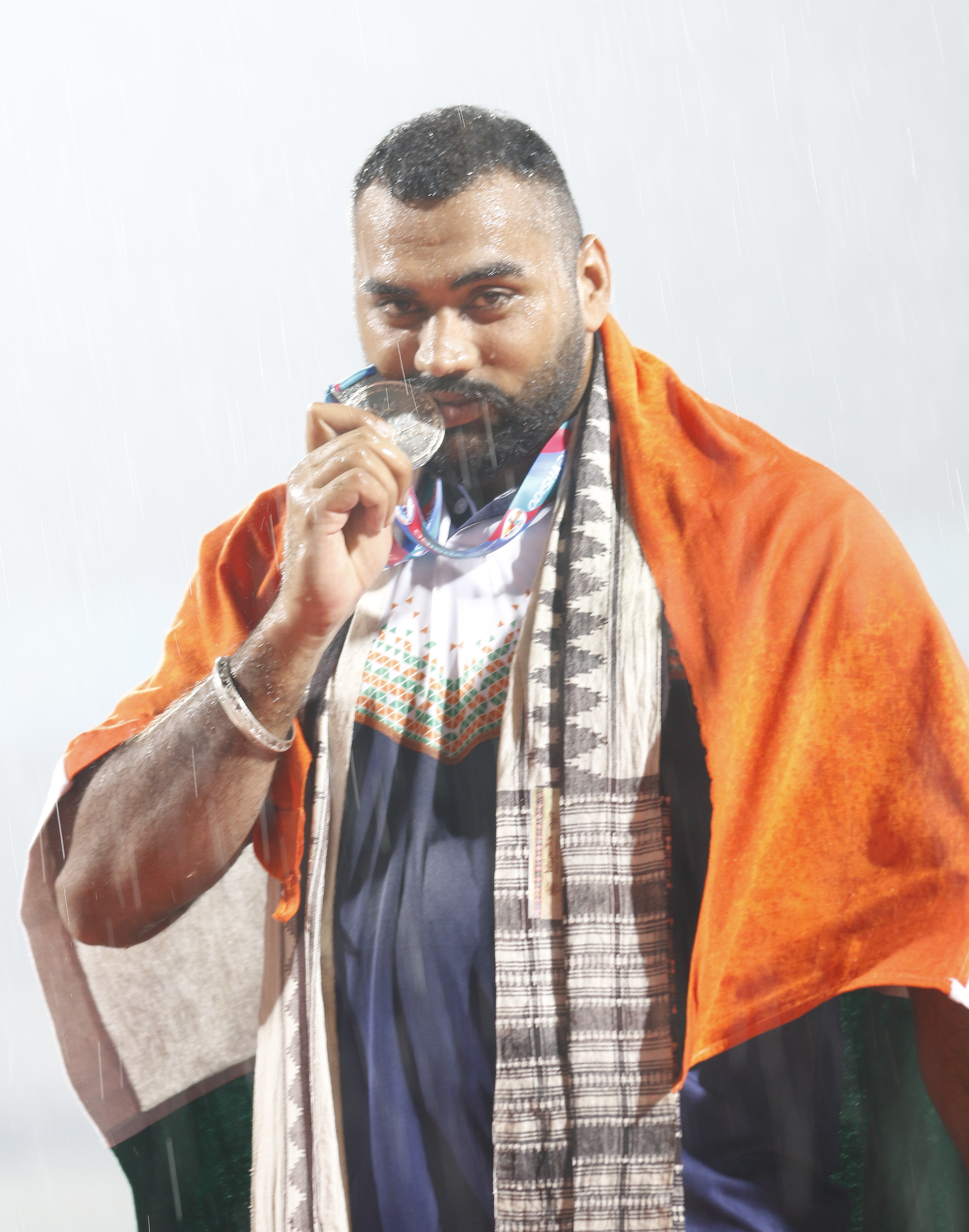 Athletes during 22nd Asian Athletics Championships in Bhubaneswar.